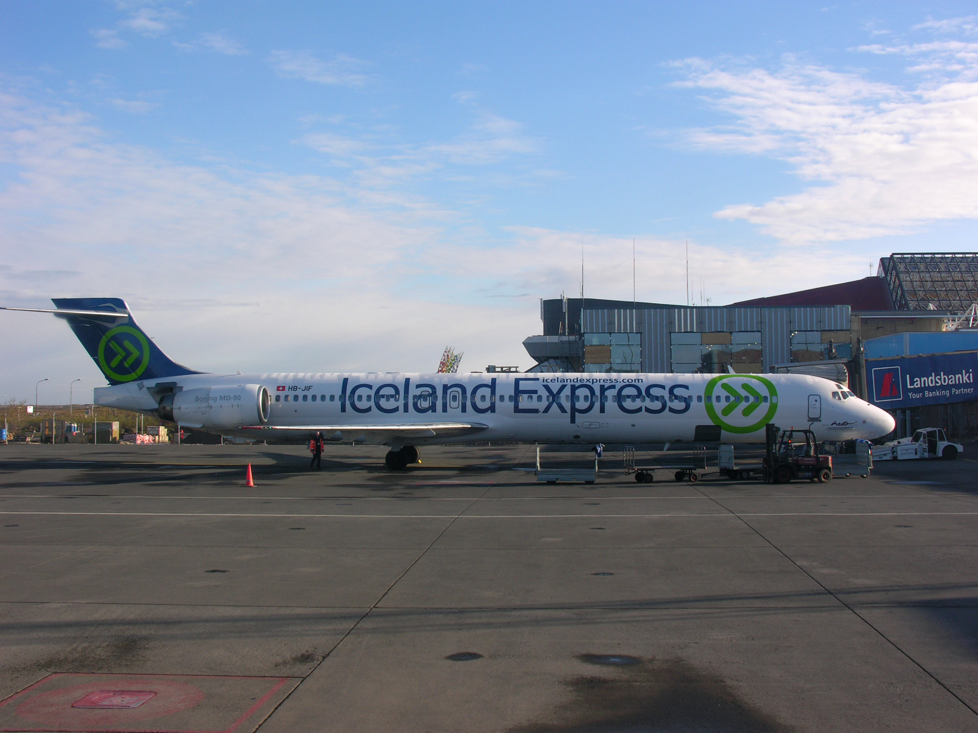 Iceland, HB-JIF at Keflavik International Airport